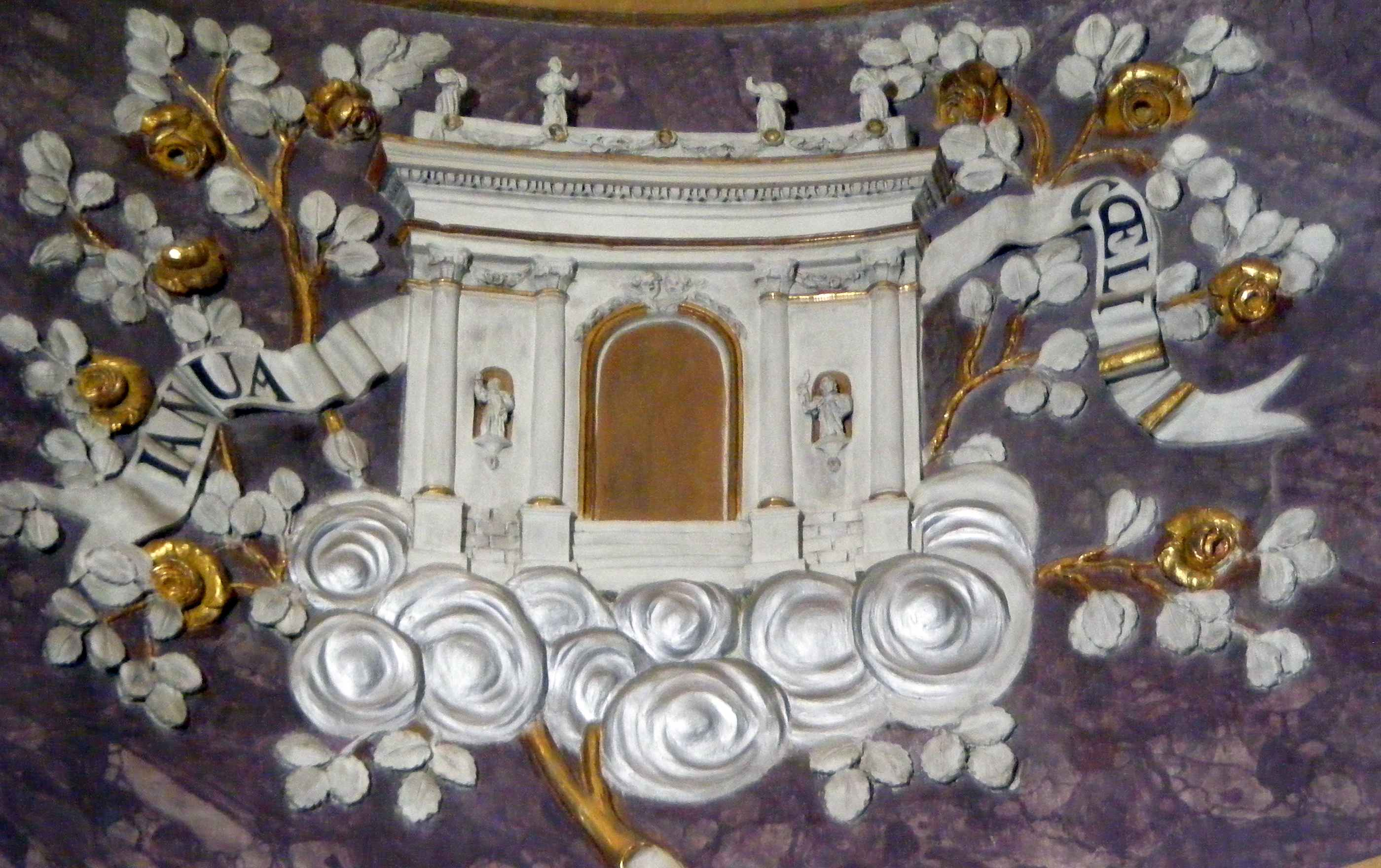 Ianua coeli; stucco on the ceiling of the Saint Andrew parish church of Pavone Canavese (TO, Italy)